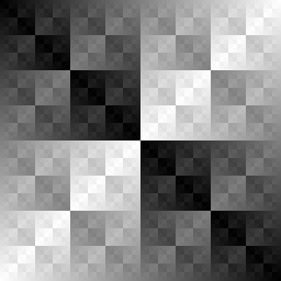 Procedural texture obtained by computing the XOR (exclusive OR) function.